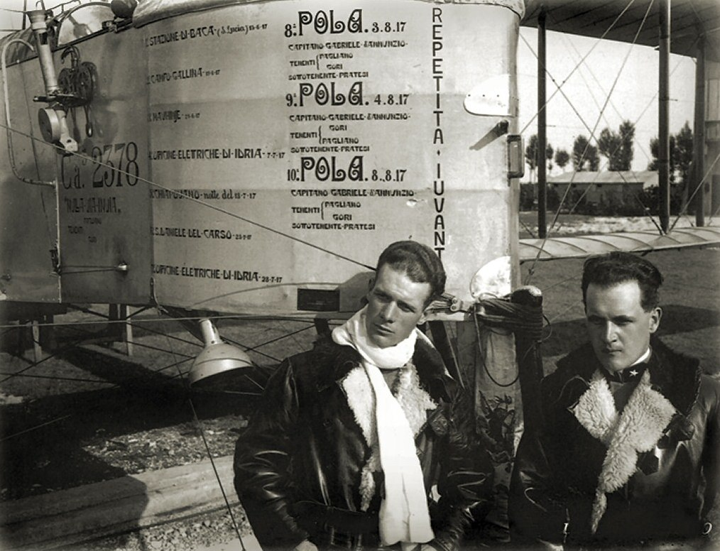 The First World War heroes Maurizio Pagliano (left) and Luigi Gori (right) killed in action on Piave Front (Fornace Vecchia, south of Susegana) on December, 30th 1917. On the nose of their Caproni Ca.3 are recorded the main missions